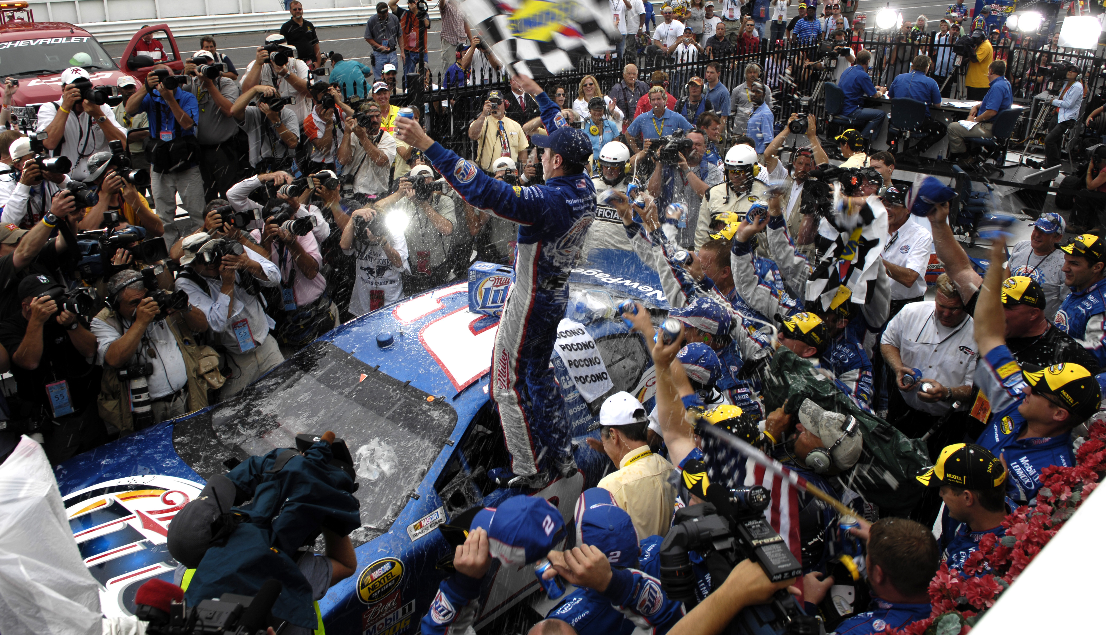 Kurt Busch celebrates after winning the NASCAR Pennsylvania 500 auto race at the Pocono Raceway in Long Pond, Penn., Aug. 5, 2007.